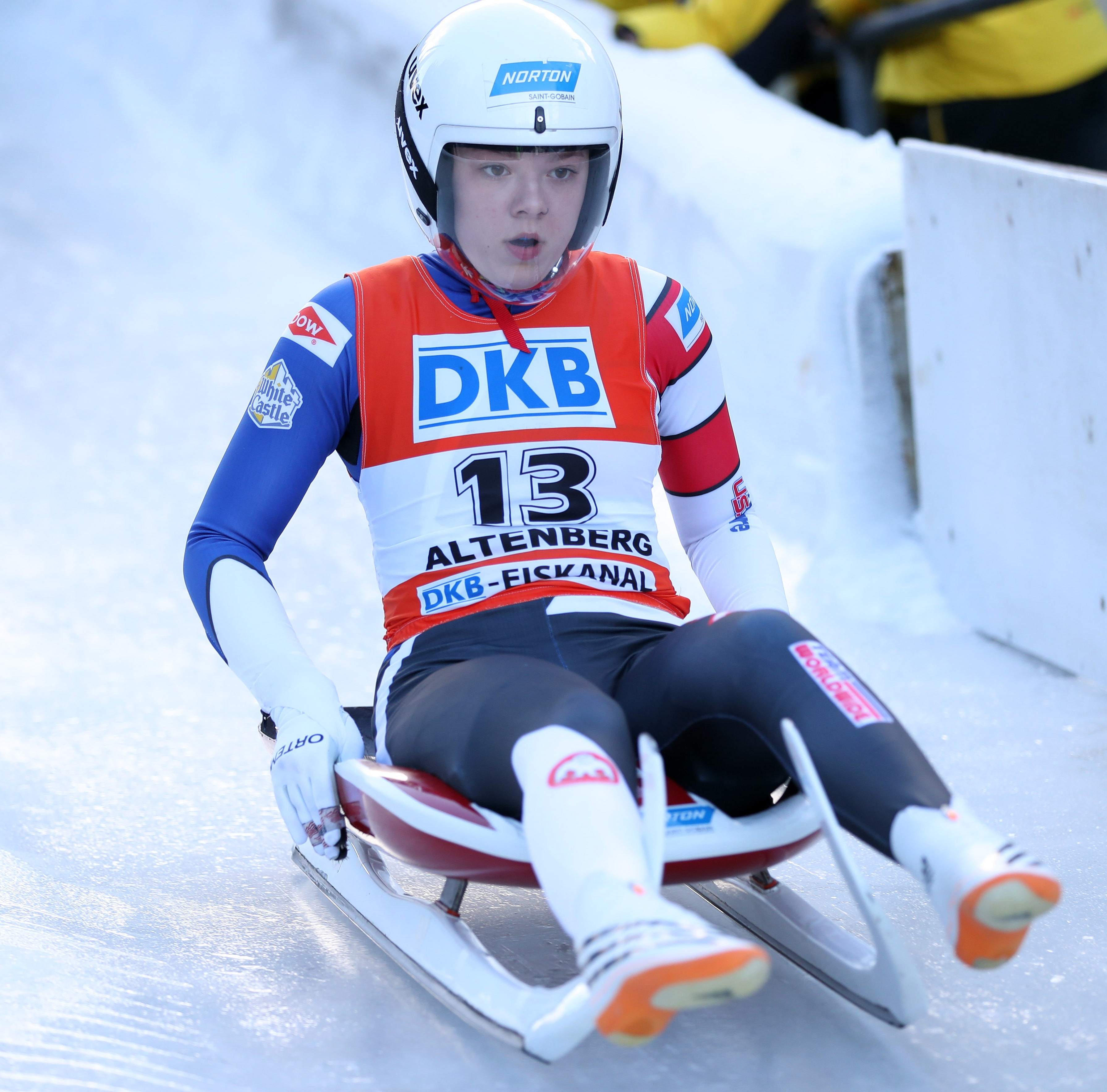 33rd Junior World Championship Luge, Altenberg 2018: Brittney Arndt